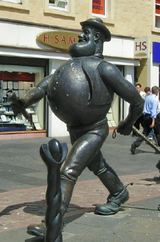 Statue of Desperate Dan in Dundee UK city centre. See this image for why Dundee.